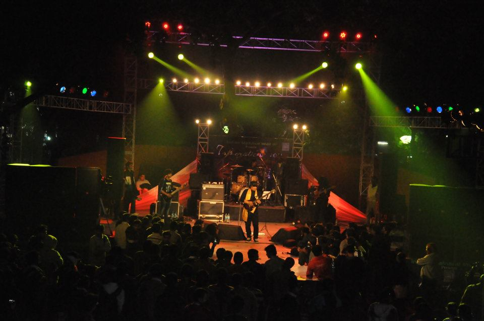 LRB performing live at Integration '12.